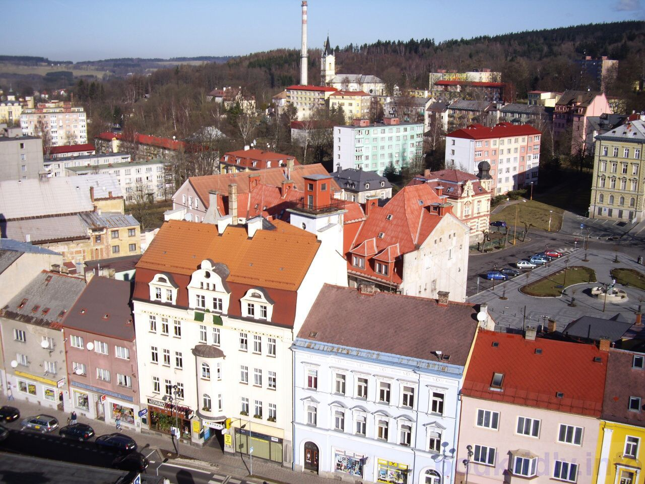 Aš, Czech Republic- town centrum